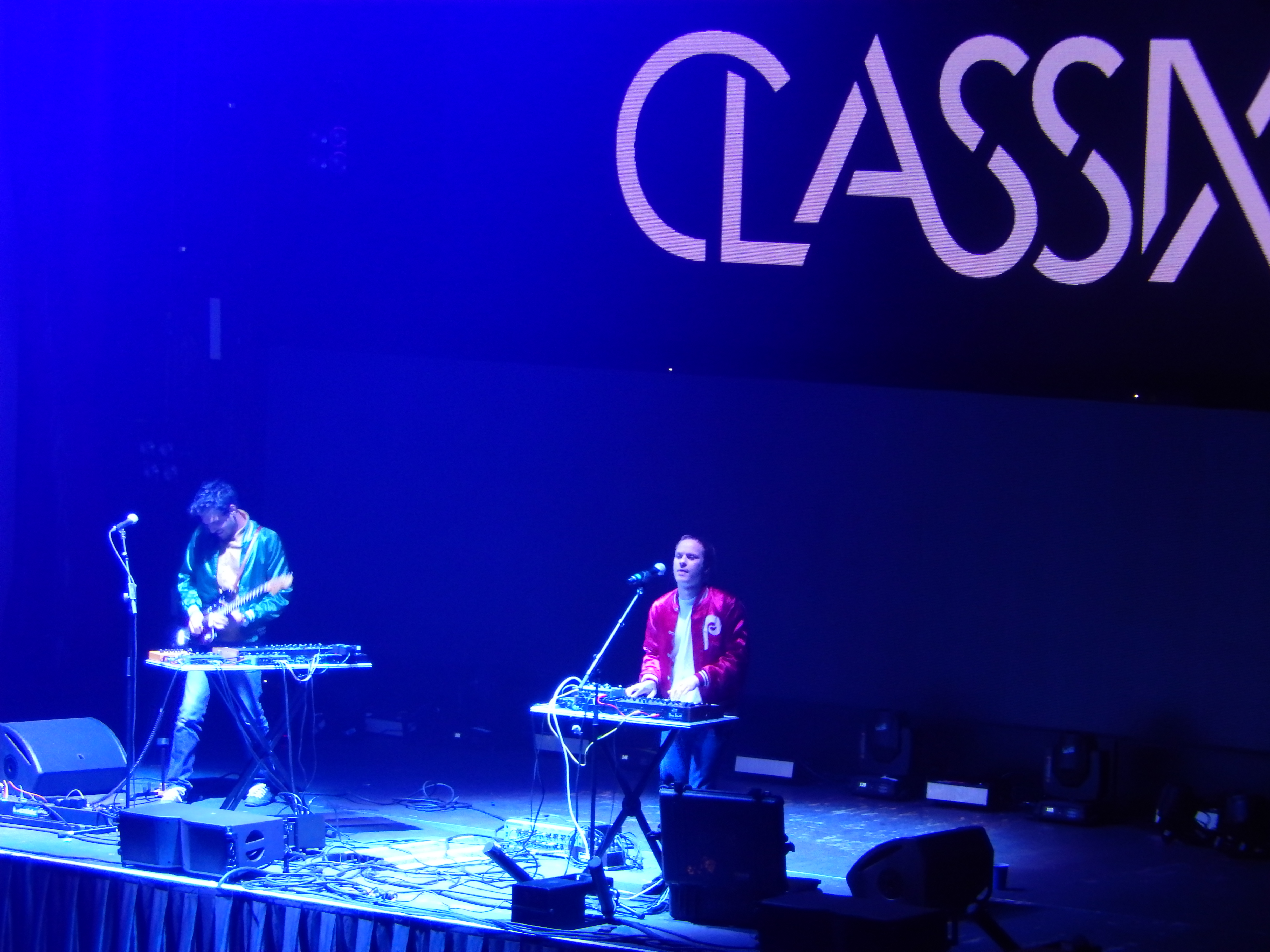 Clasixx performing in 2013